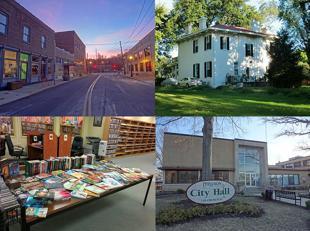 Ferguson, Missouri infobox montage